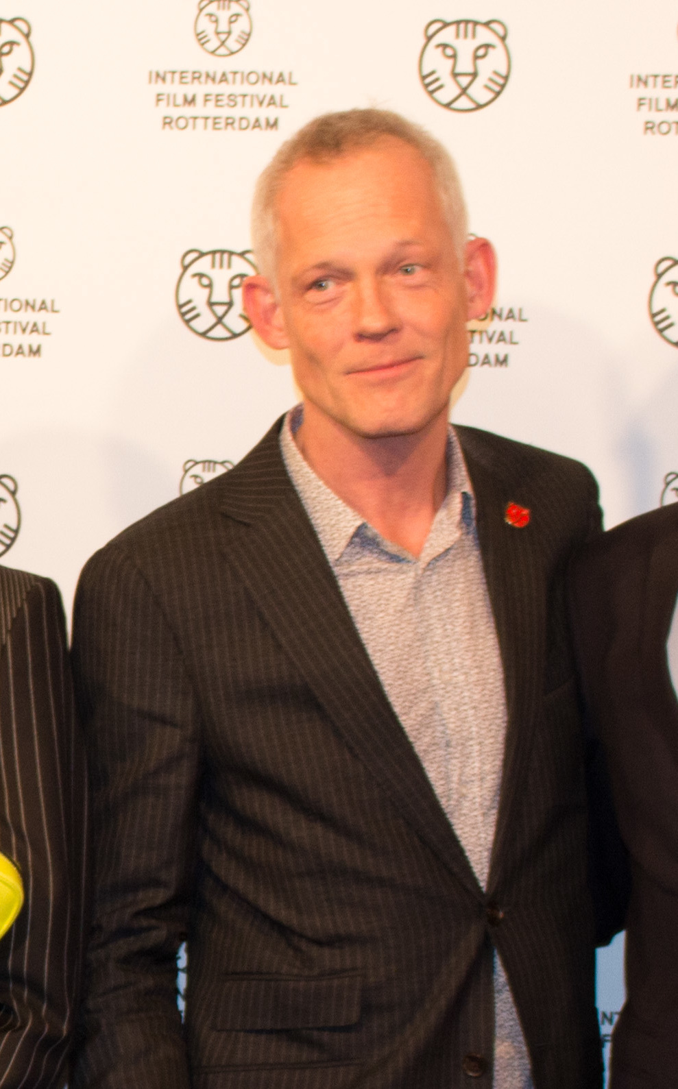 cast & crew of "Paradise Drifter" at the 49th International Film Festival Rotterdam